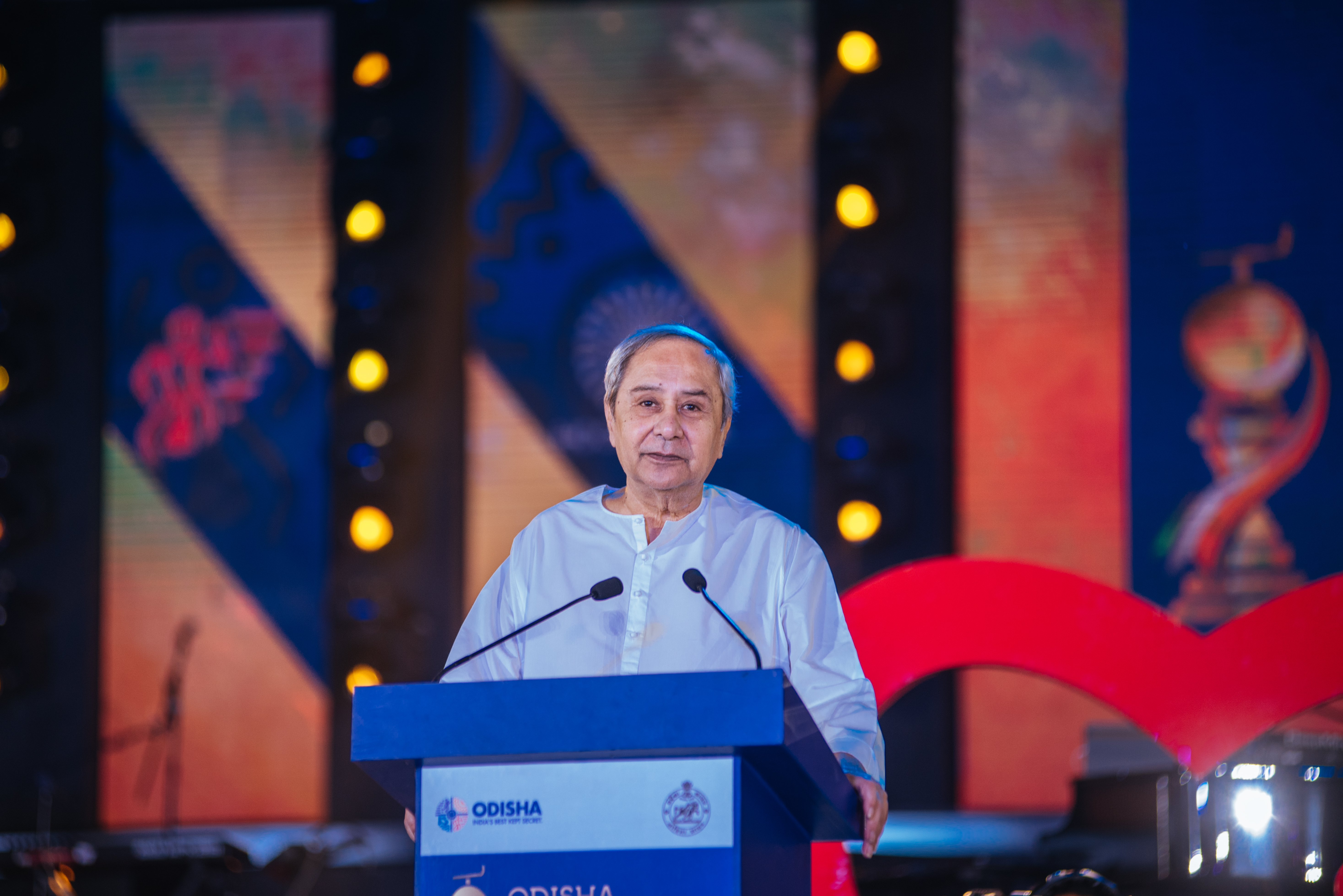 Opening Ceremony Hockey World Cup 2018 Bhubaneswar